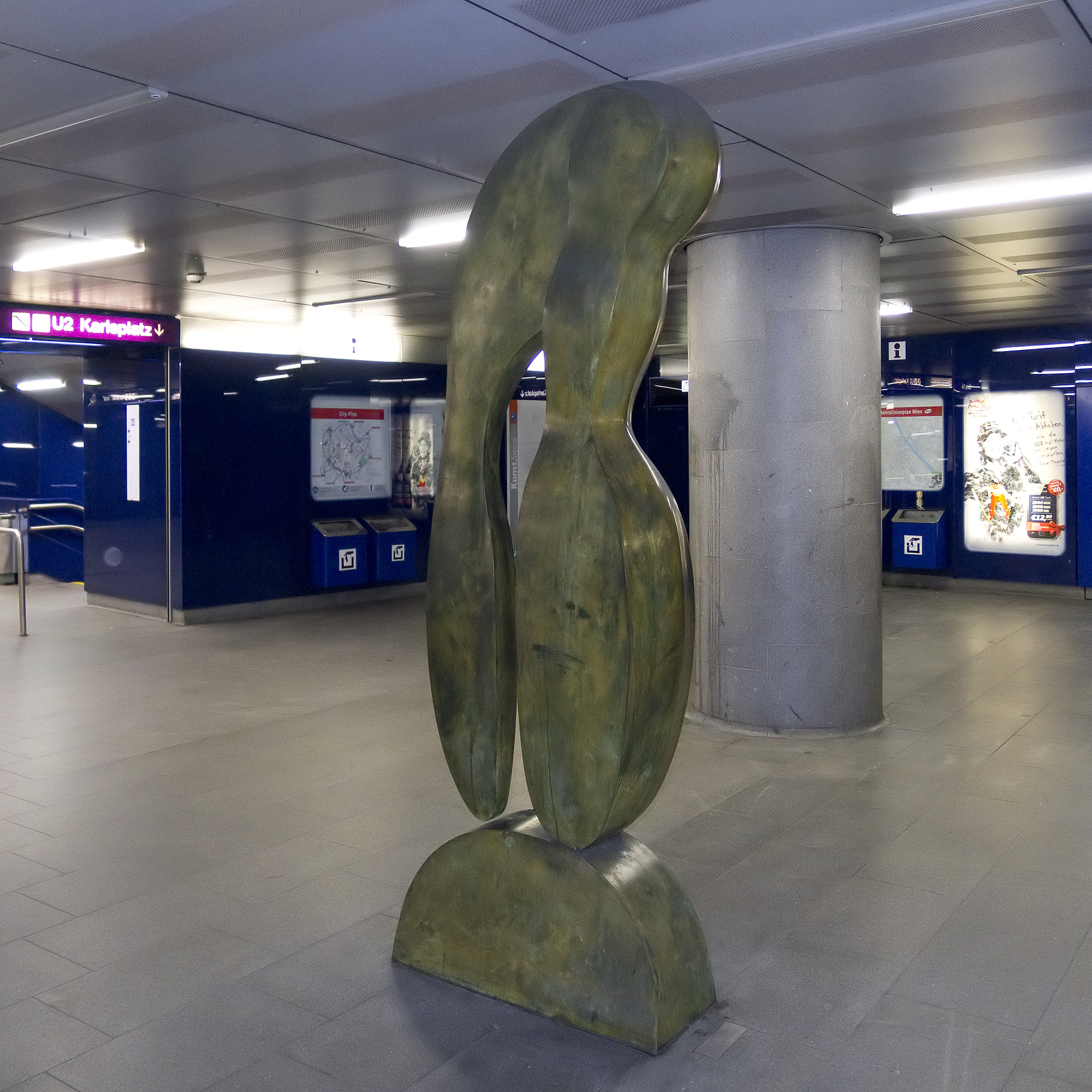 Underground station U-Bahn-Station Museumsquartier in Vienna